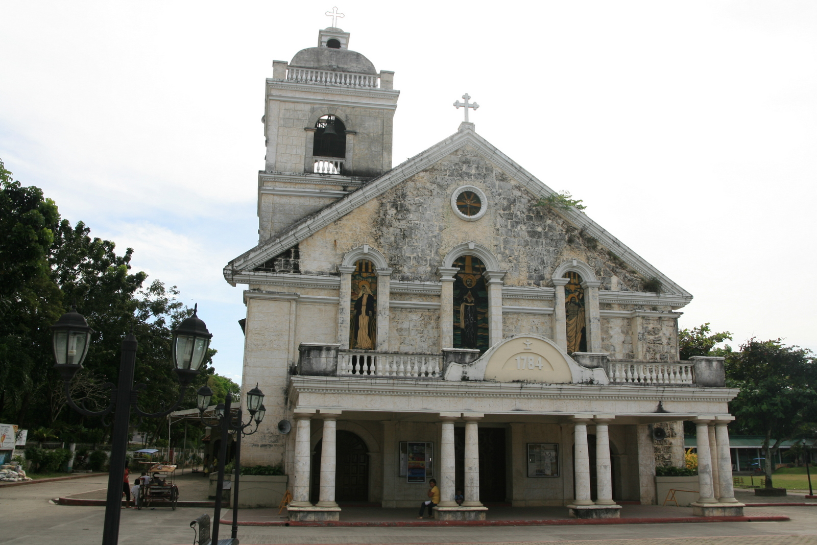 Palompon: church (i)